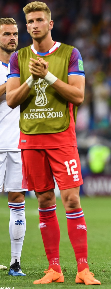 Frederik Schram